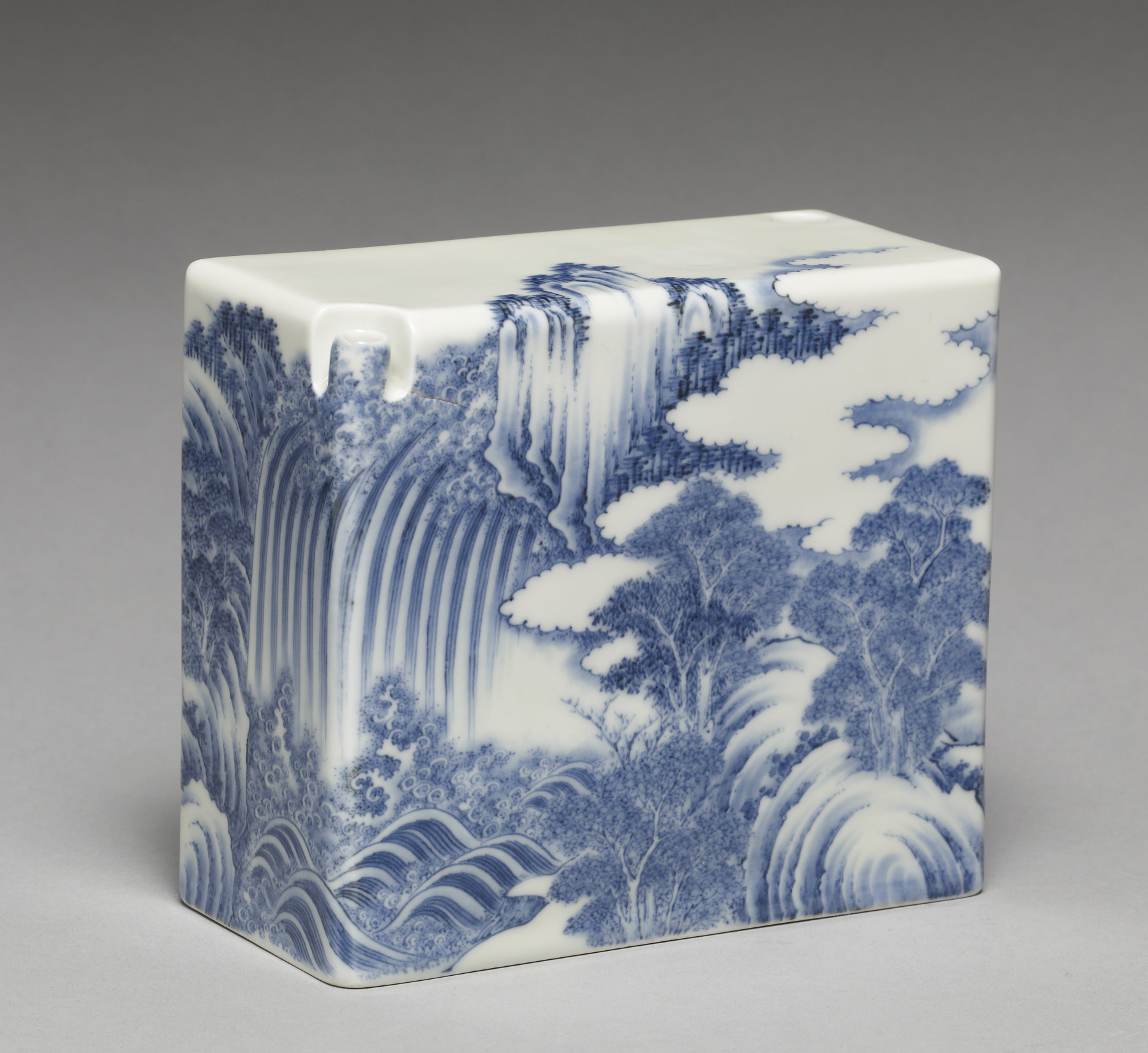 This is an example of Hirado ware.